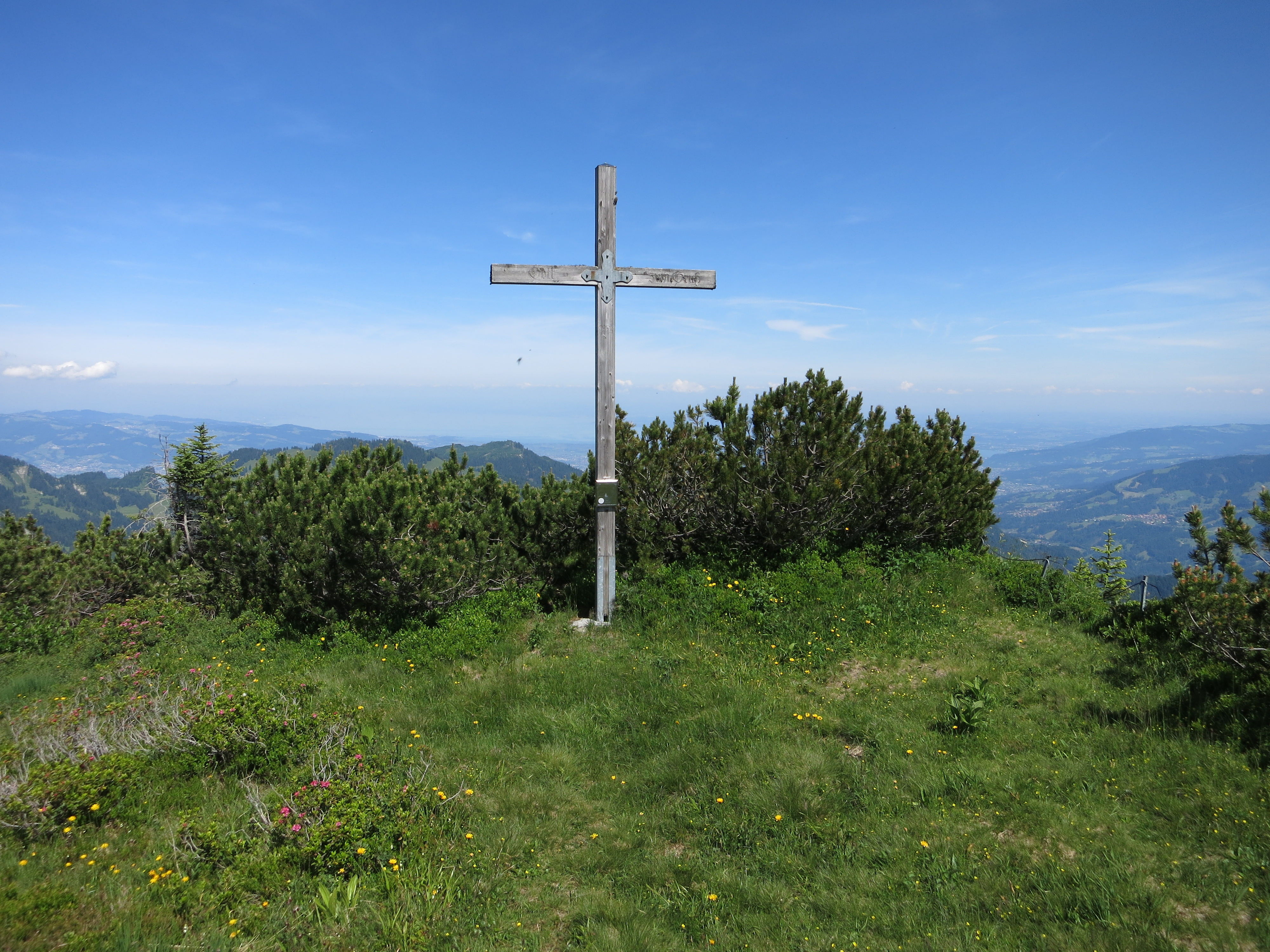 On top of mountain Alpkopf near Hohenems, Austria